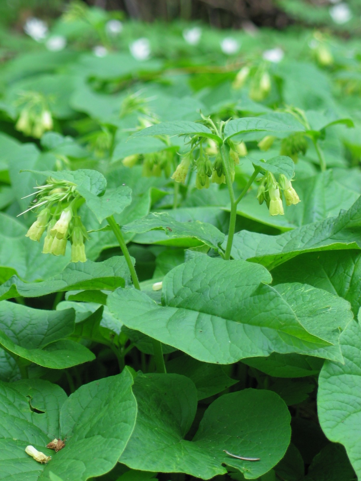 Symphytum cordatum in Bielany-Tyniec Landscape Park, Cracow, Poland.